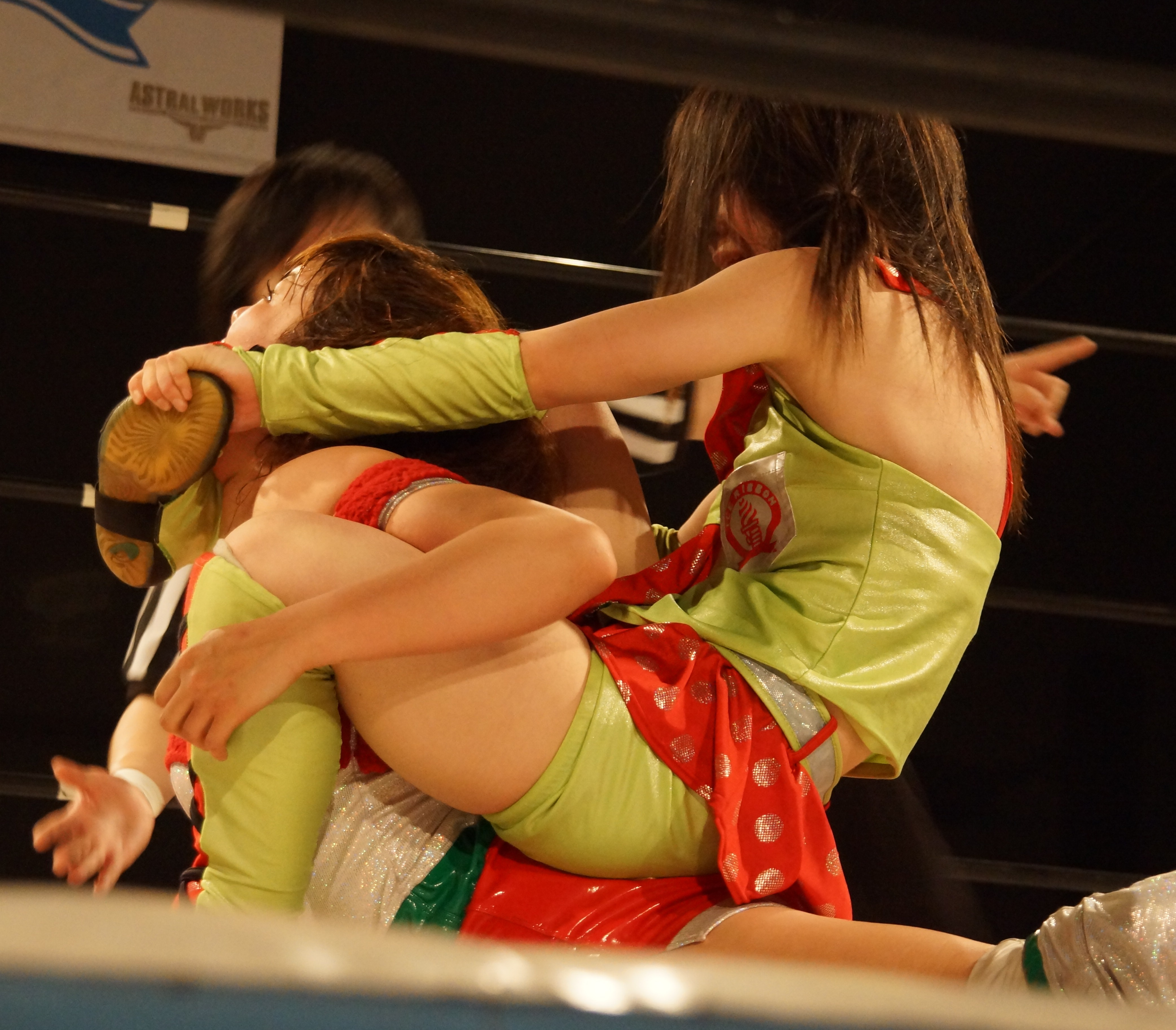 Professional wrestler Tsukushi performing the "Twinkle Star Lock" on Aoi Kizuki at an Ice Ribbon event.